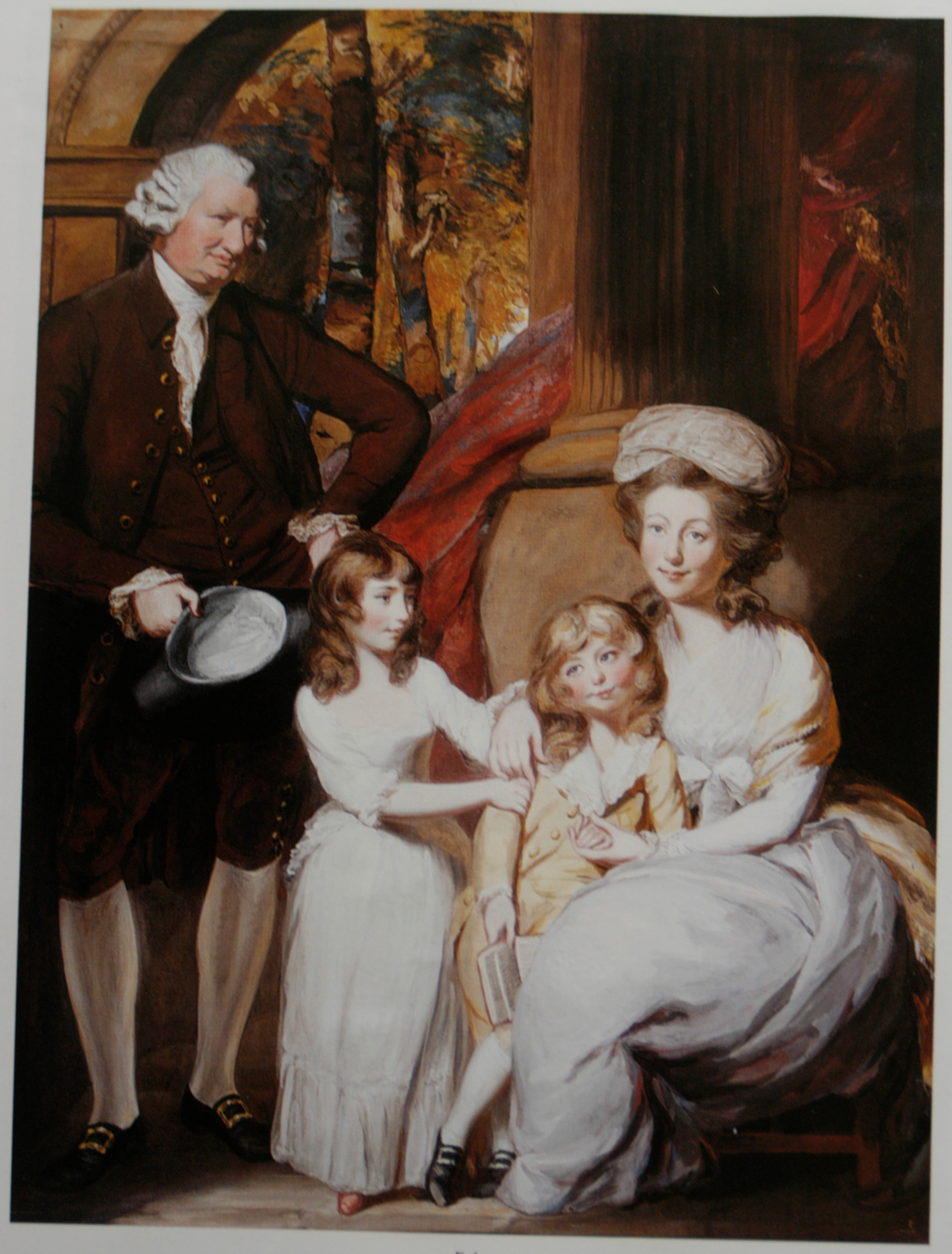 Gouache (and pastel over pencil) of Vice-Admiral Francis William Drake (1724-87) and wife, and daughters, Sophia and Marianne, by Daniel Gardner (1750-1805). Sophia married the 4th Count de Salis, and Marianne became Mrs Evance. It measures: 36.5 or 37 x 28 inches. Other information Provenance Marianne Evance; G. F. L. Evans sale, Christie's, King street, 1 July 1927, lot 117, 105 or 110 guineas to Pollak, (illustrated); Leger Galleries; P. P. Hague; Sotheby's, (twice at Sotheby's or once each with Sotheby's and Christie's); Martyn Gregory.